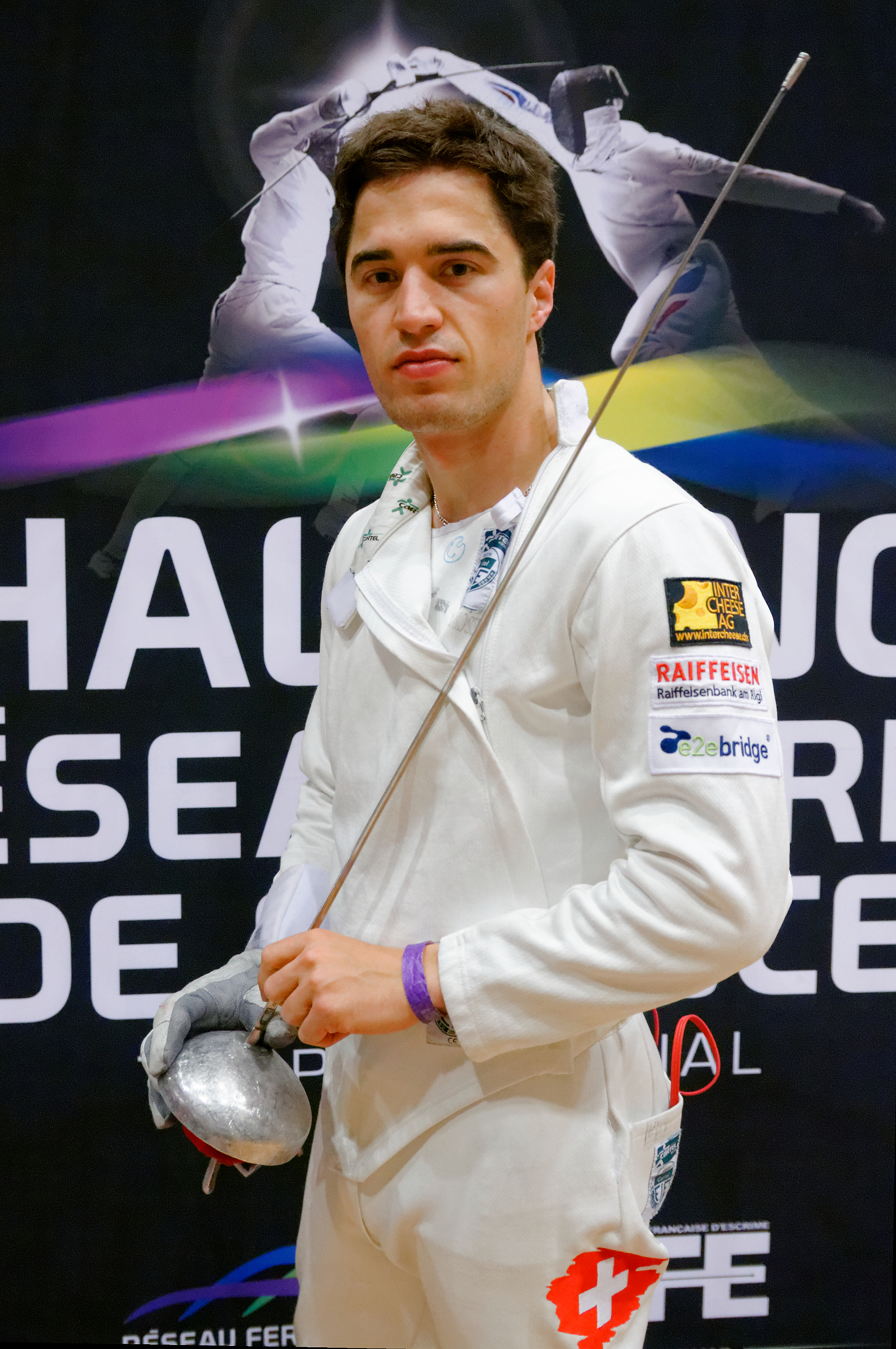 Max Heinzer during the Challenge Réseau Ferré de France–Trophée Monal 2013, a men's épée FIE World Cup competition.